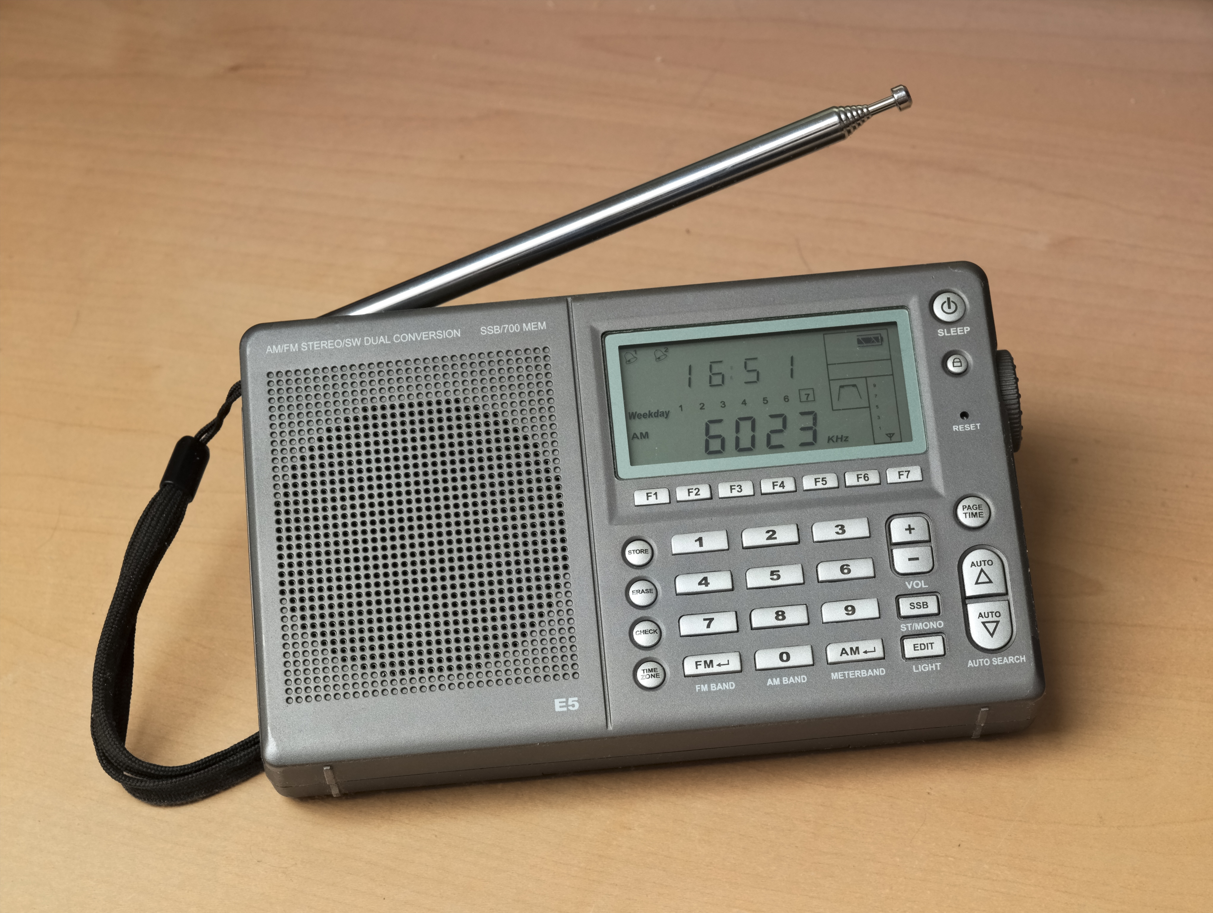 World receiver Lextronix E5